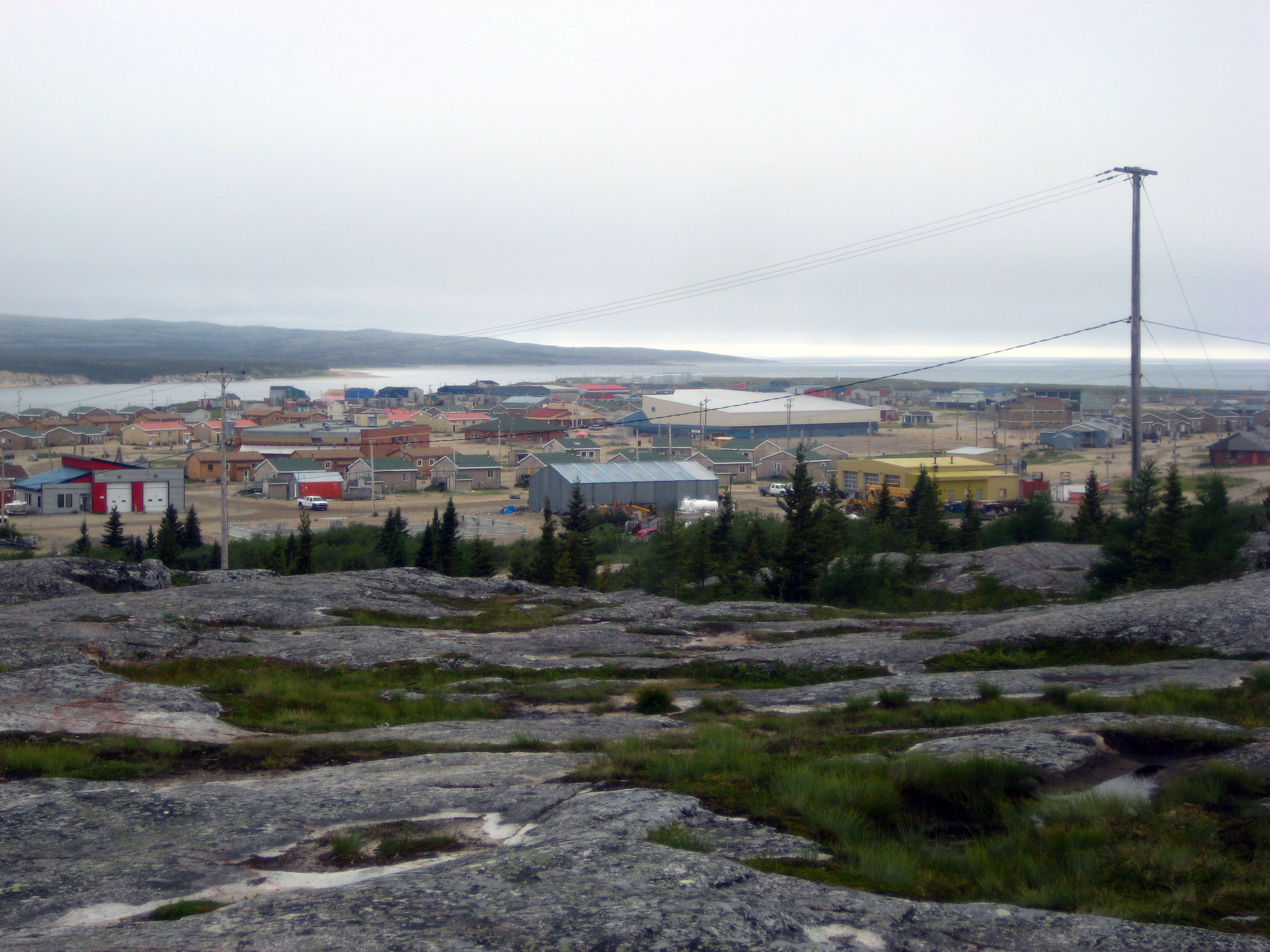 Partial view of Whapmagoostui and Kuujjuarapik, from the hills to the east